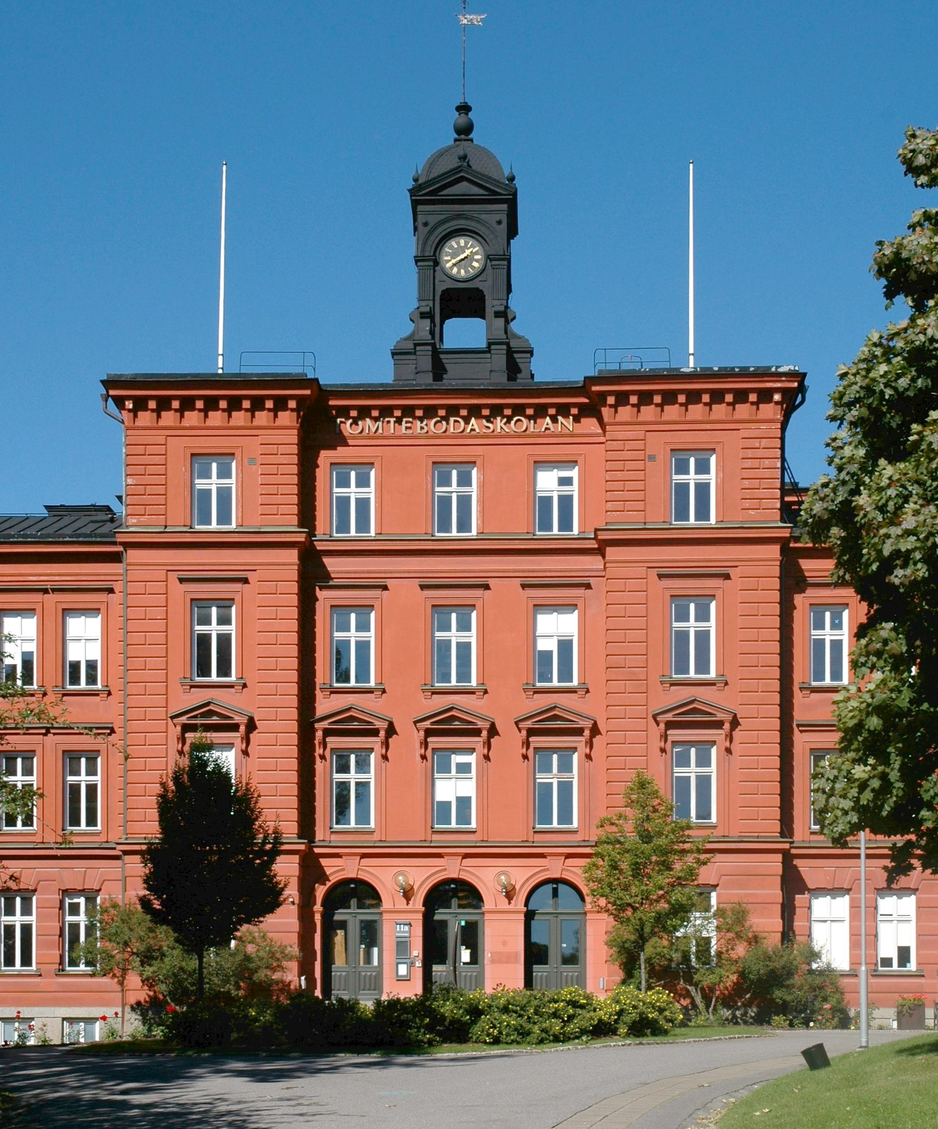 European Center for Disease Prevention and Control (ECDC), Tomtebodaskolan, Solna.